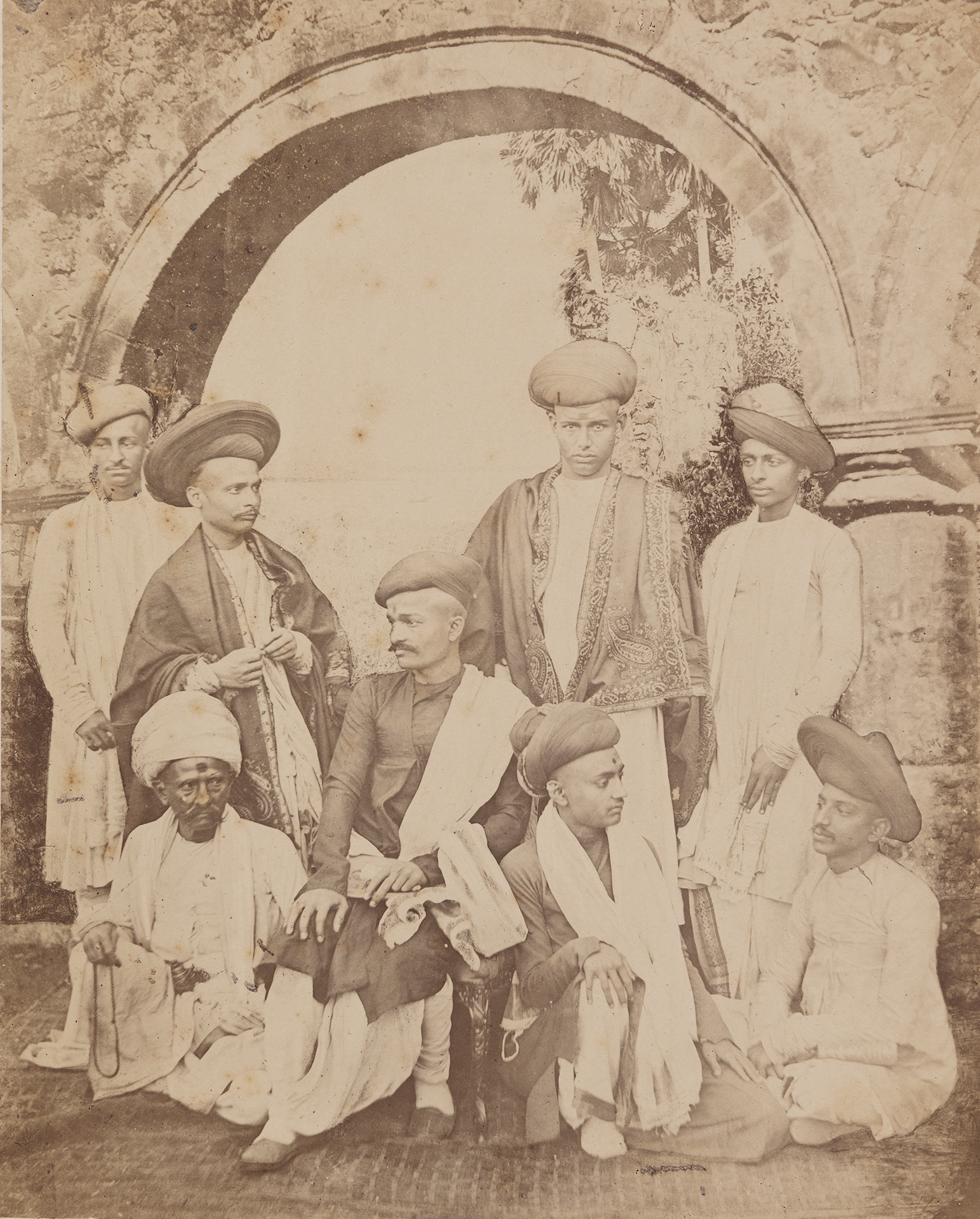 Title: Nagar Brahmins Creator: Johnson, William Date: ca. 1855-1862 Part Of: Photographs of Western India Series: Photographs of Western India. Volume I. Costumes and Characters. Place: India Physical Description: 1 photographic print: albumen; 26 x 20 cm on 42 x 35 cm mount File: vault_ag2002_1407x_1_001_nagar_opt.jpg Rights: Please cite Southern Methodist University, Central University Libraries, DeGolyer Library when using this image file. A high-quality version of this file may be obtained for a fee by contacting . For more information, see: View Europe, India, and Asia: Photographs, Manuscripts, and Imprints